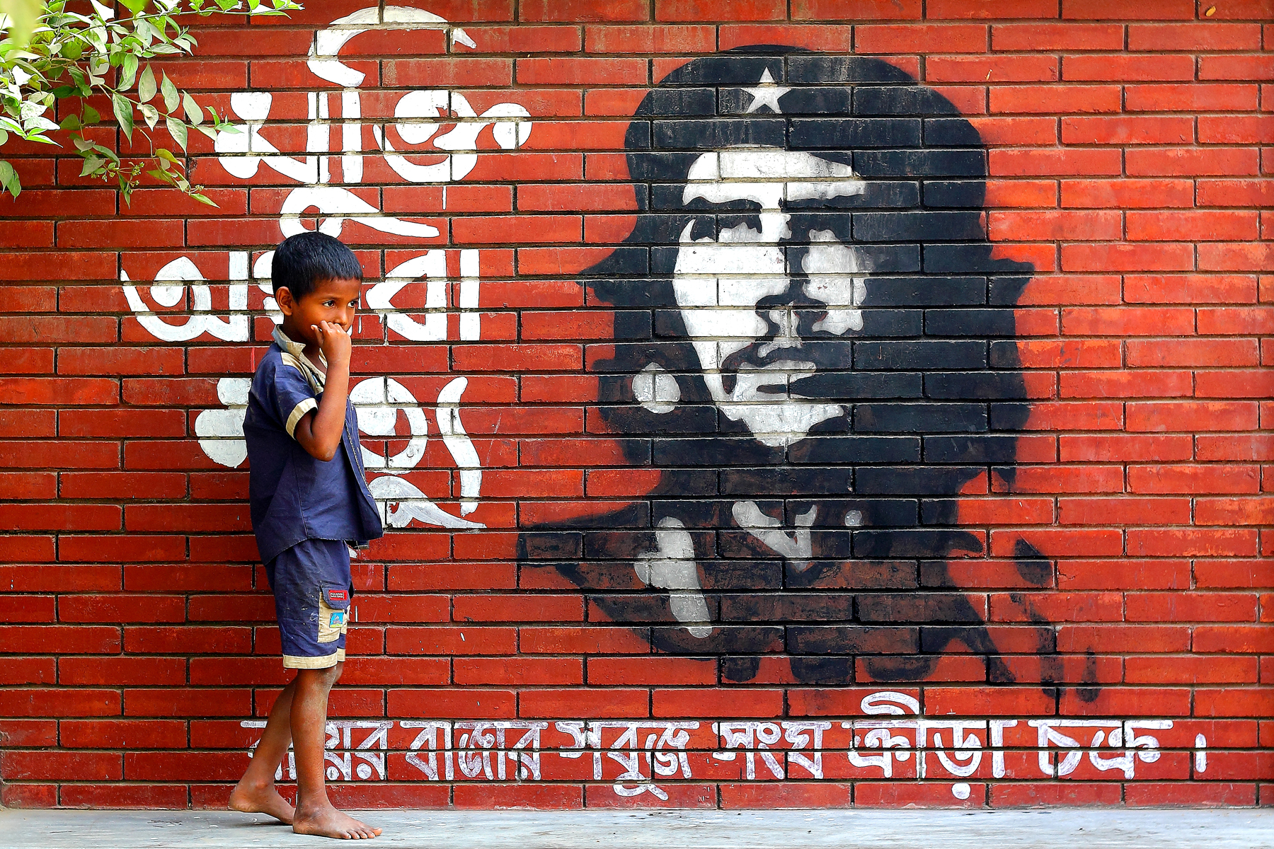 Street Photography of a wall with a graffiti of Che Guevara ▓▓▓▓▓▓▓▓▓▓▓▓▓▓▓▓▓▓▓ Photographer: Jubair Bin Iqbal Copyright © JBI Gallery Website Cellphone +88 01714 332 553 Bangladesh